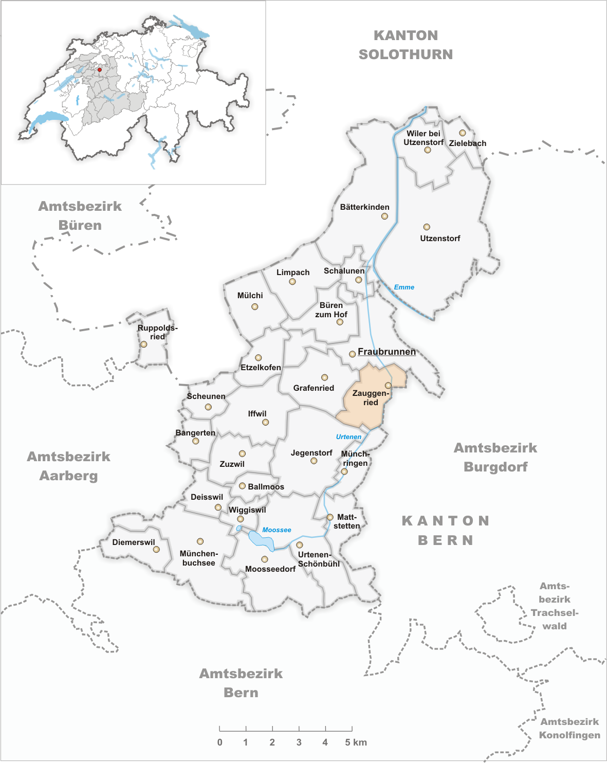 Municipality Zauggenried